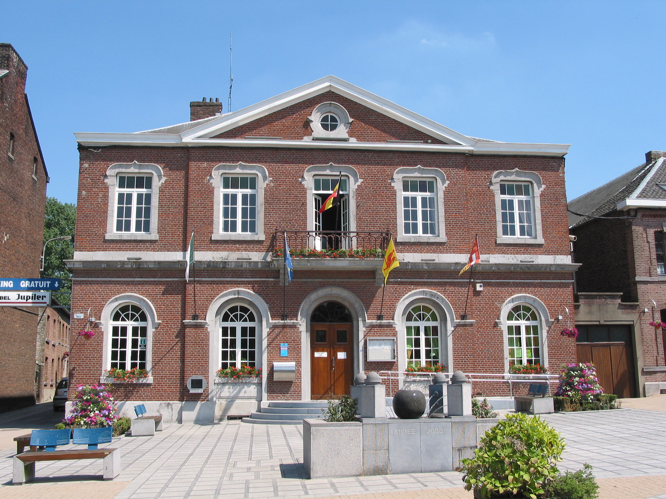 Aubel (Belgium), the town hall.